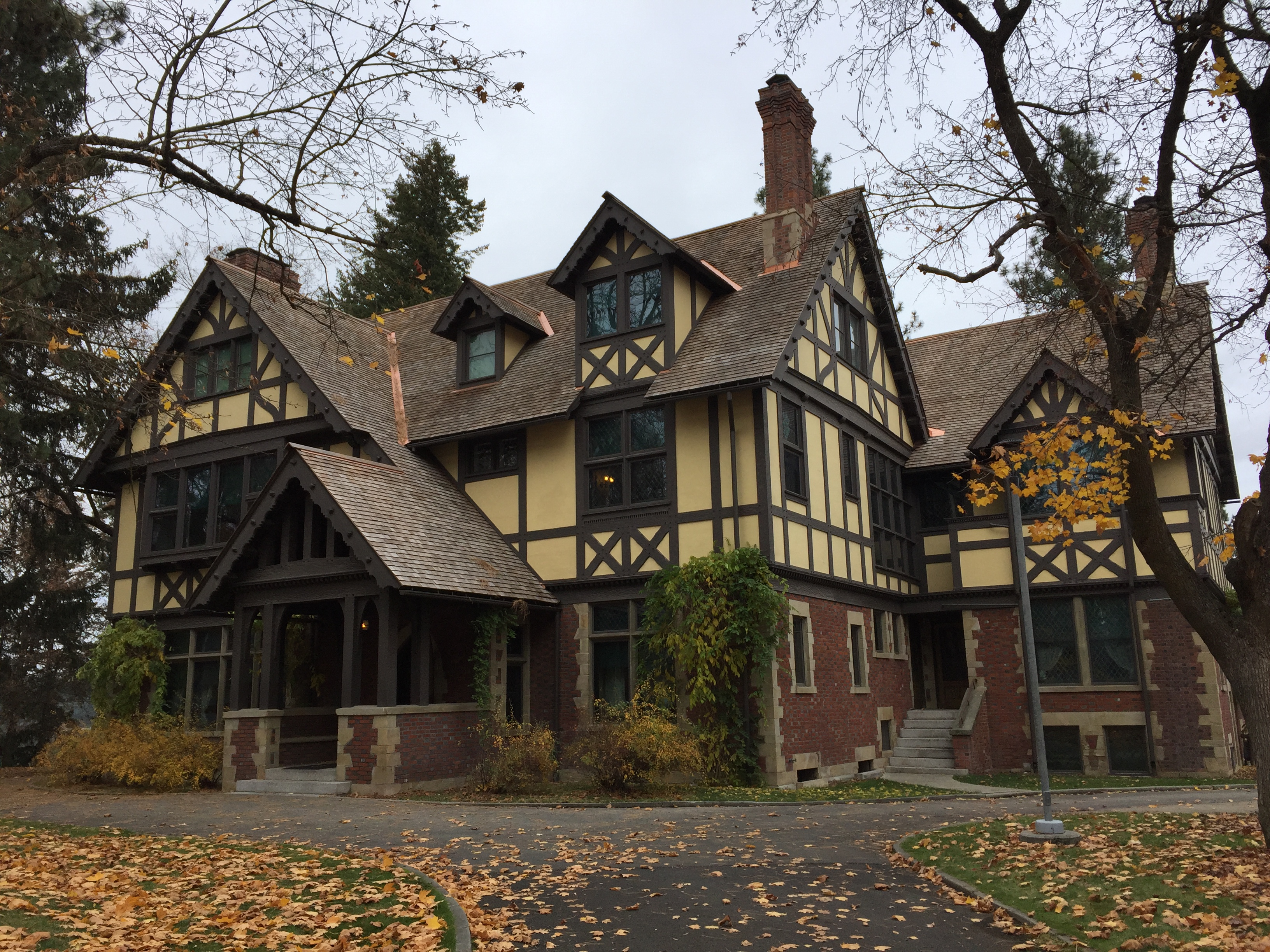 Campbell House in Spokane, Washington in 2018